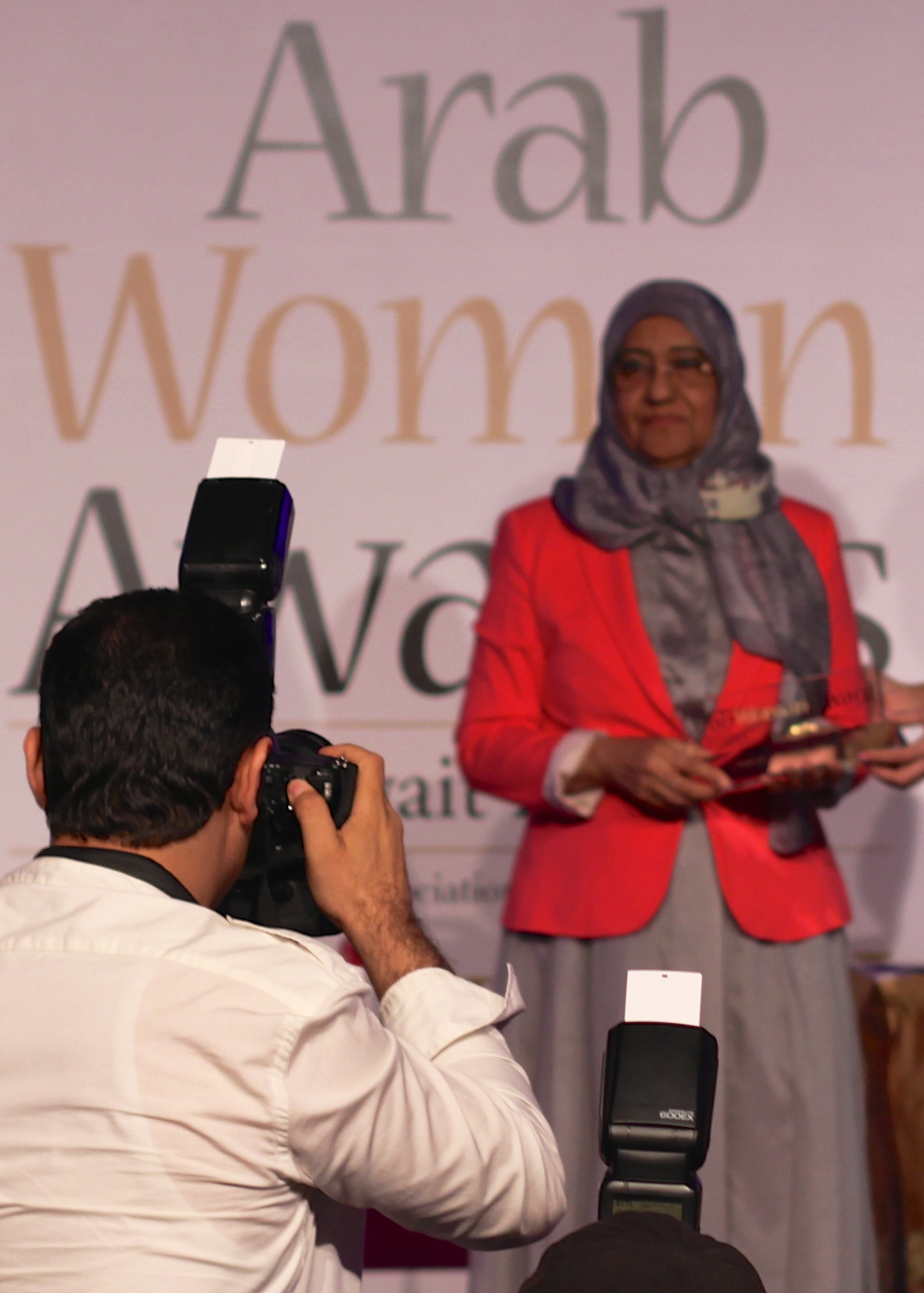 Dr. Najma Idrees accepting the Arab Woman Award for literature 2013 at the Sheraton in Kuwait.